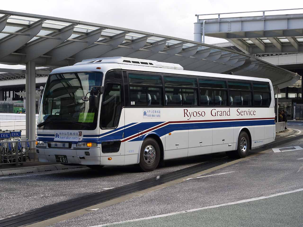 Fleet of Ryoso Grand Service, for flight crew bus and hotel shuttle bus. Model: Mitsubishi Fuso Aero Bus (KL-MS86MP or KC-MS829P) License plate: CBC200KA-401 Place: Narita International Airport